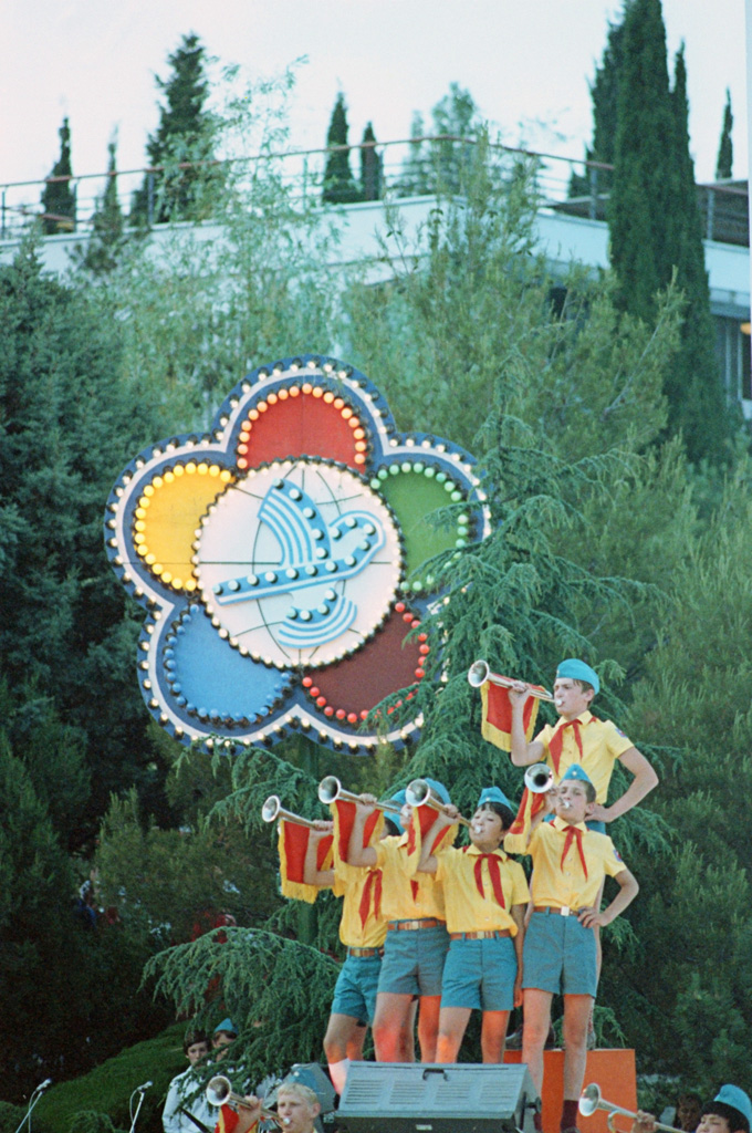 “All-Union ‘Artek’ Camp buglers”. All-Union “Artek” Camp buglers inviting to celebrations. Logo of the 12th World Festival of Youth and Students in Moscow in the background.